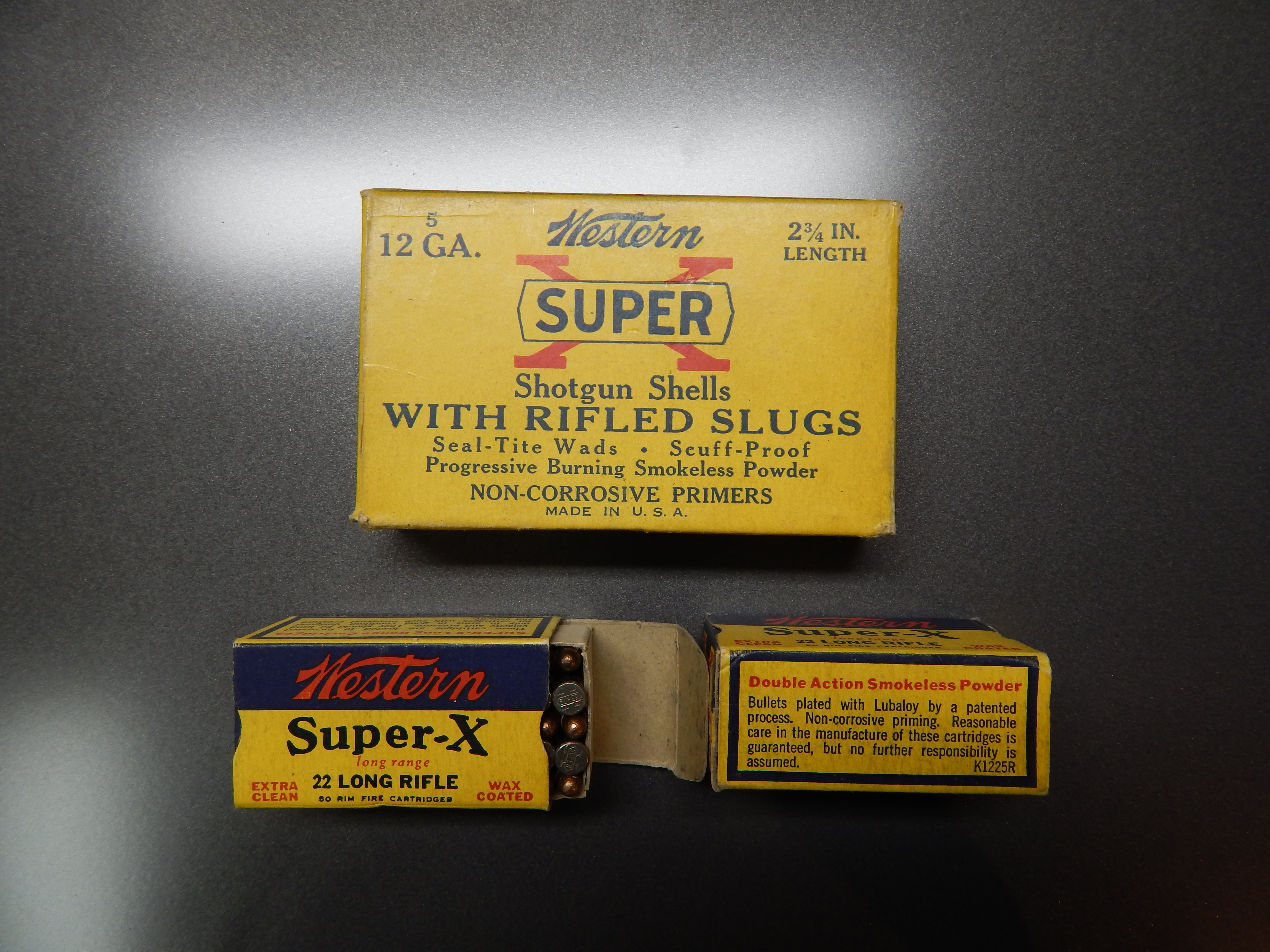 Western Cartridge Co. boxes of 12 GA and .22LR circa 1960. Displays the logo and trademarks for the company as well as common packaging themes